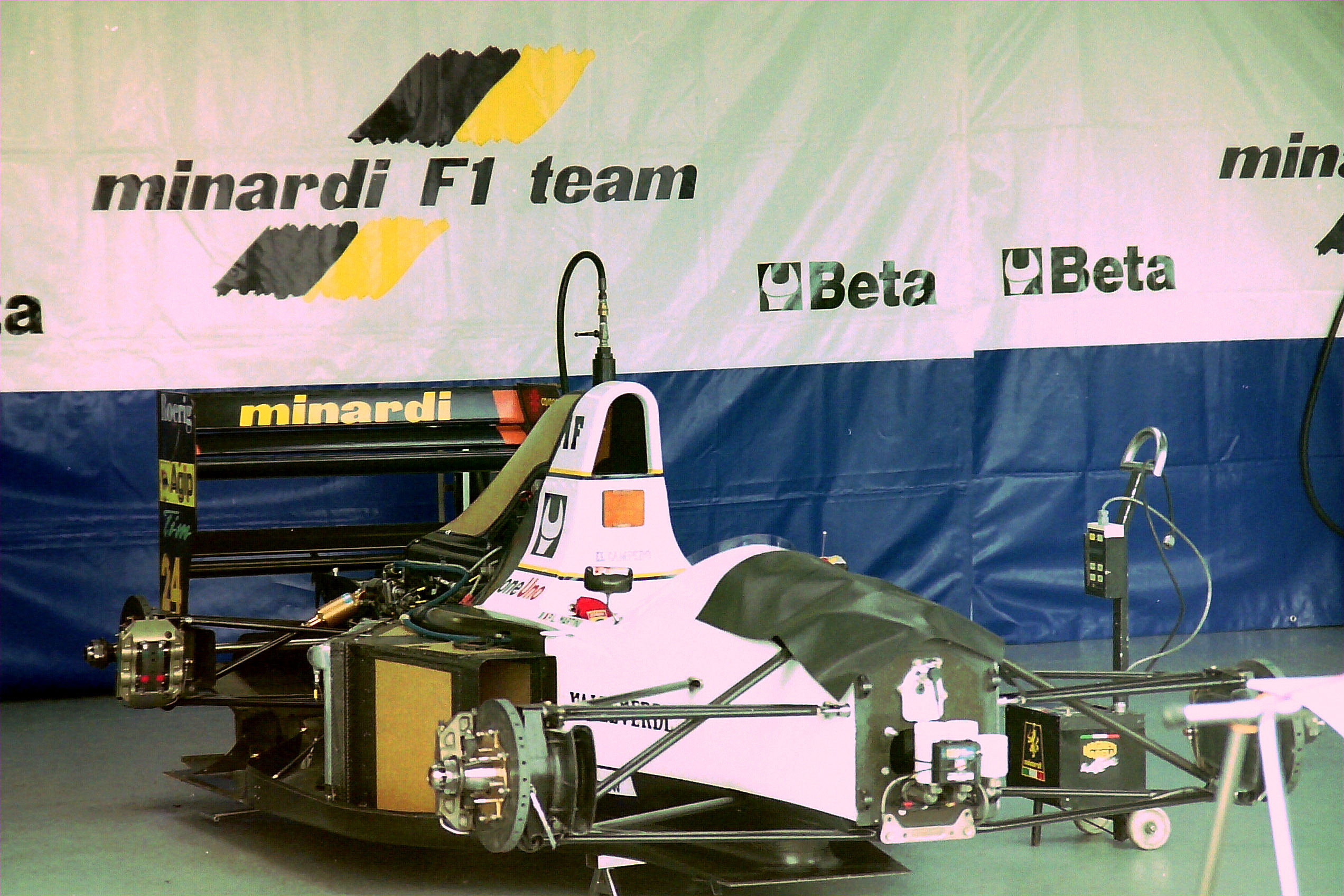 Pierluigi Martini`s Minardi M193 in the pit garage at the 1993 British Grand Prix